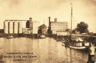 Flour factory in Deventer, The Netherlands. Built in 1888 - 1897.